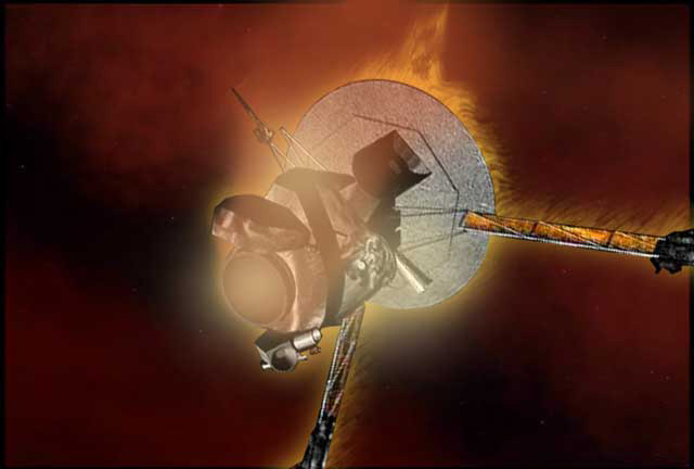 Galileo's End An artist's impression of the Galileo orbiter beginning to burn up in Jupiter's atmosphere. Galileo's 14-year mission to explore the Jovian system ended on Sept. 21, 2003 when the spacecraft was deliberately sent into Jupiter's atmosphere.